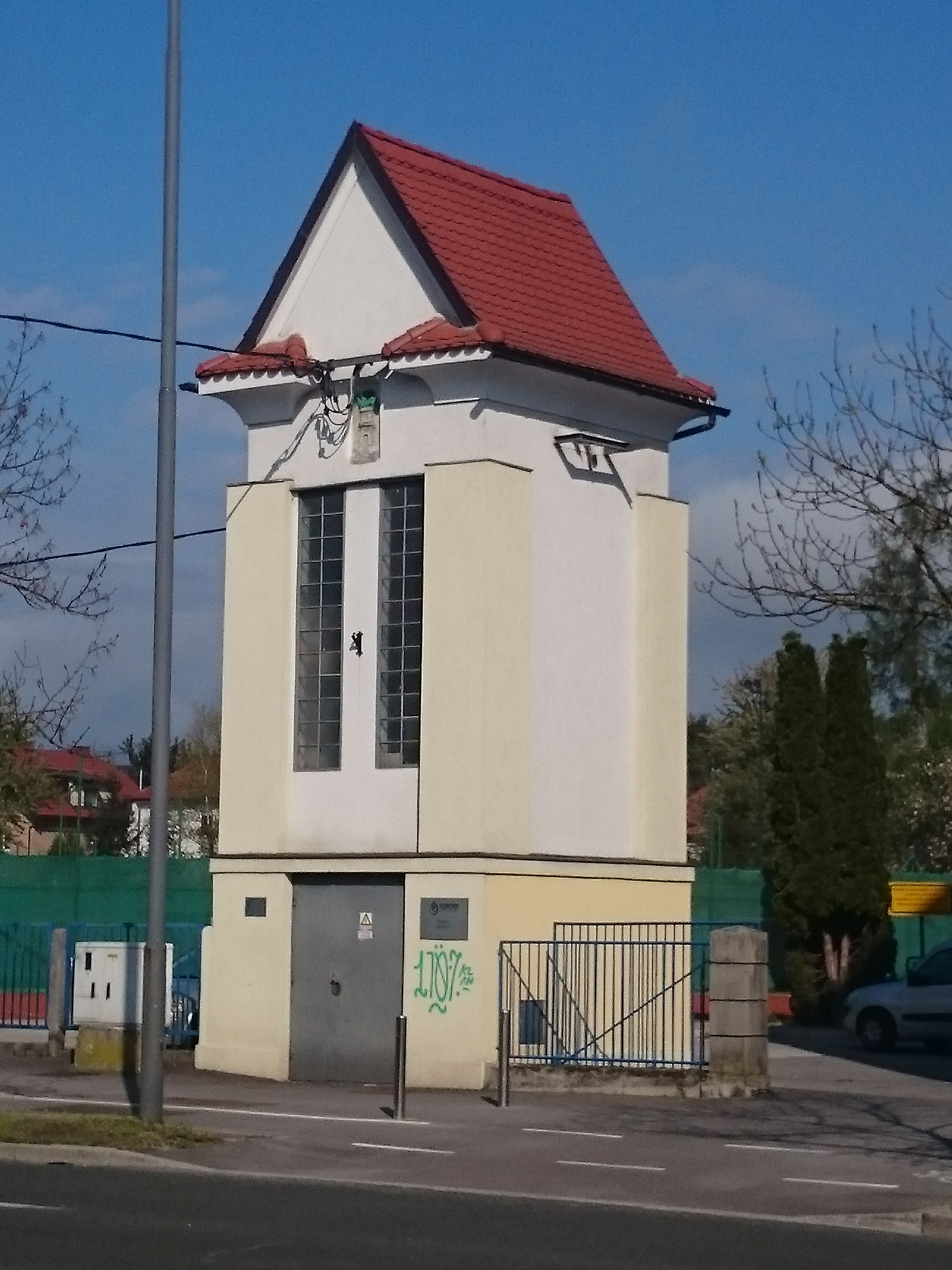 Old transformer station, located in the Vič district of Ljubljana, at Tržaška cesta, next door to the Vič primary school. Built in 1926. Entered into the national register of immovable cultural heritage, nr. 12501.